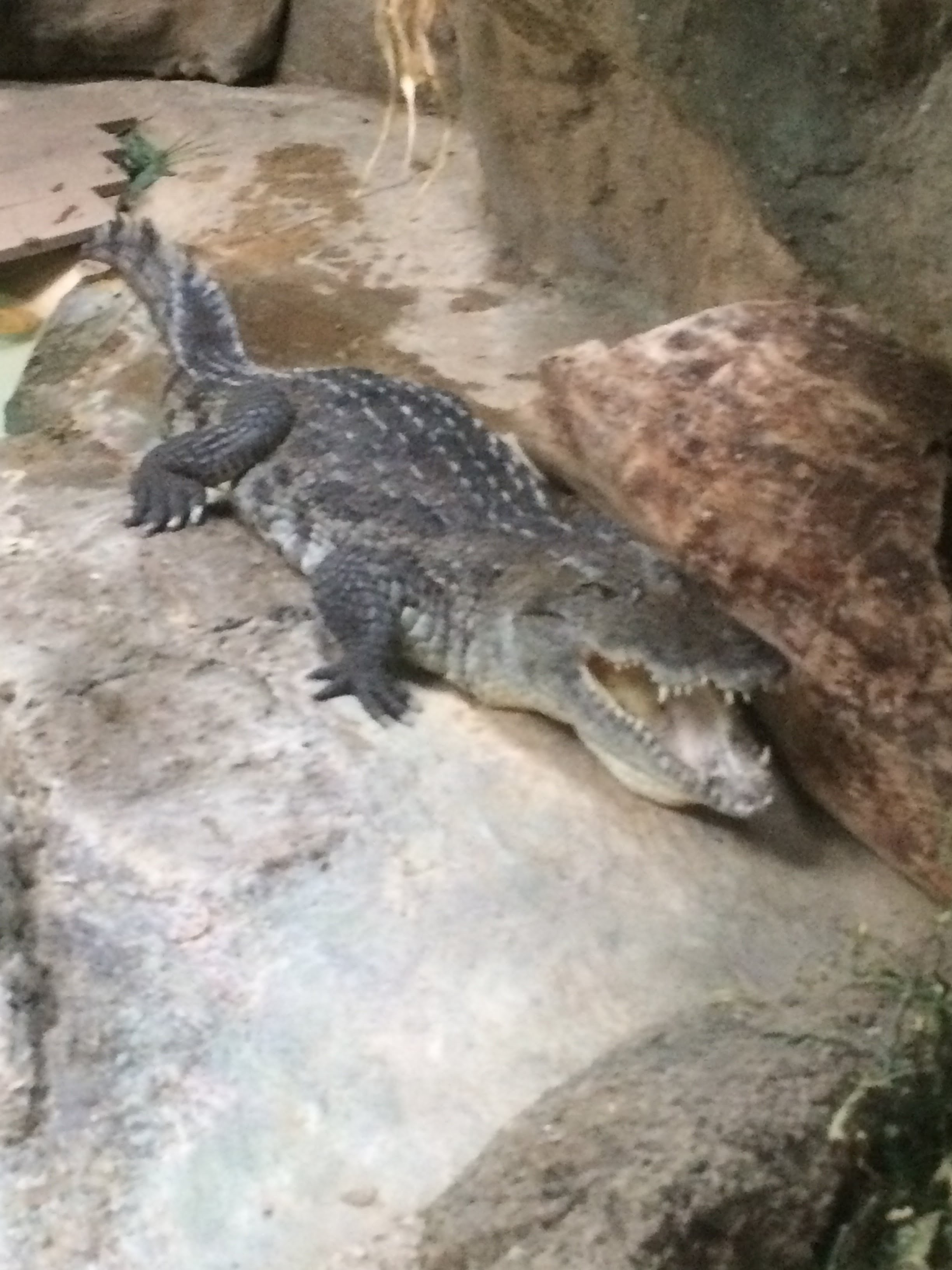 West African Crocodile at Philadelphia Zoo